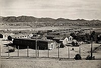 Photograph of the Santa Fe Internment Camp in New Mexico during World War II.